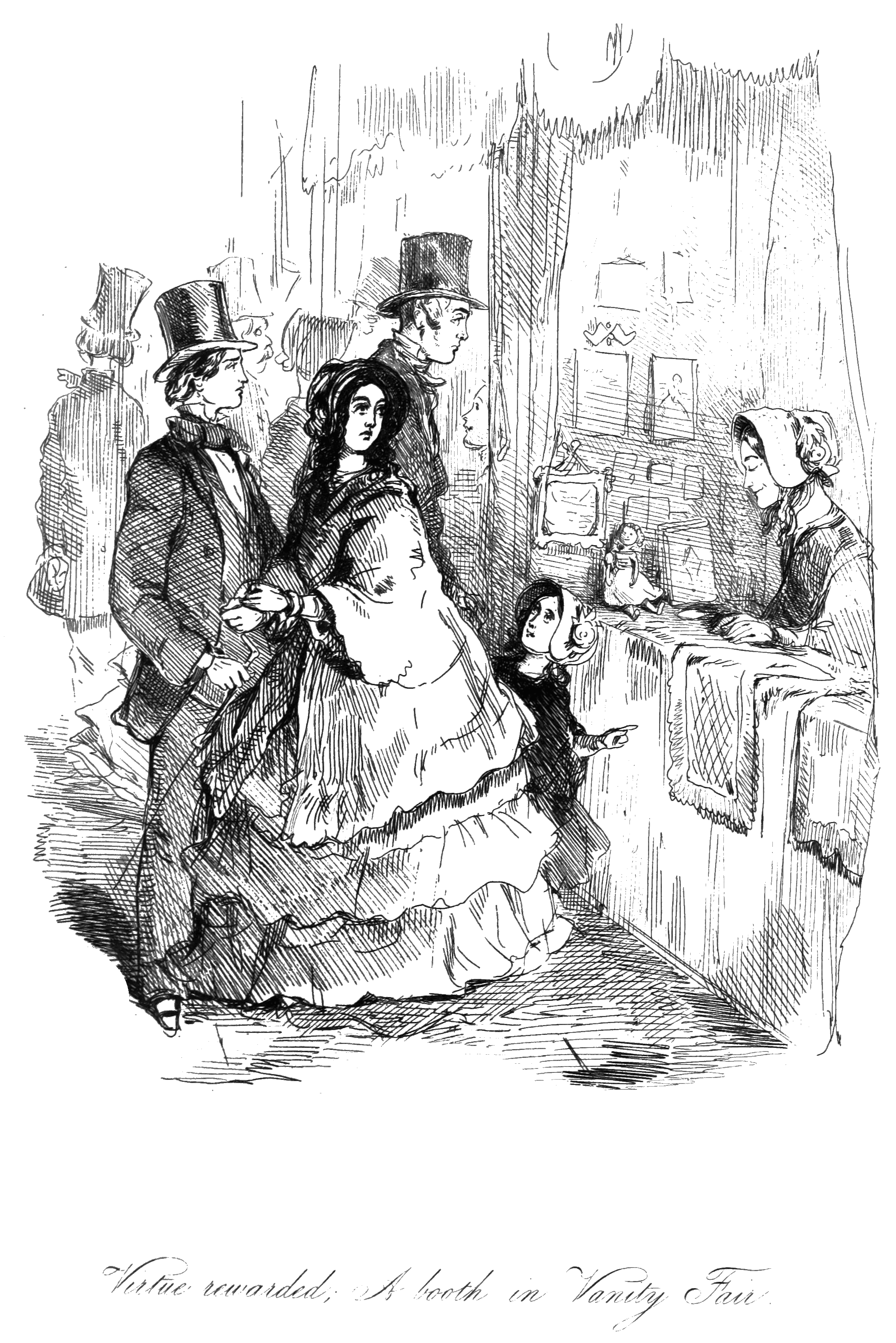 Virtue rewarded; A booth in Vanity Fair Emmy, her children, and the Colonel encounter Becky, Lady Crawley, at one of her charity booths at the Fancy Fairs. The number indicates the Djvu page number of the Wikisource transclusion.